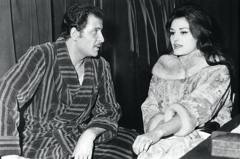 French-Italian singer Dalida (right) with the Italian singer-songwriter Domenico Modugno